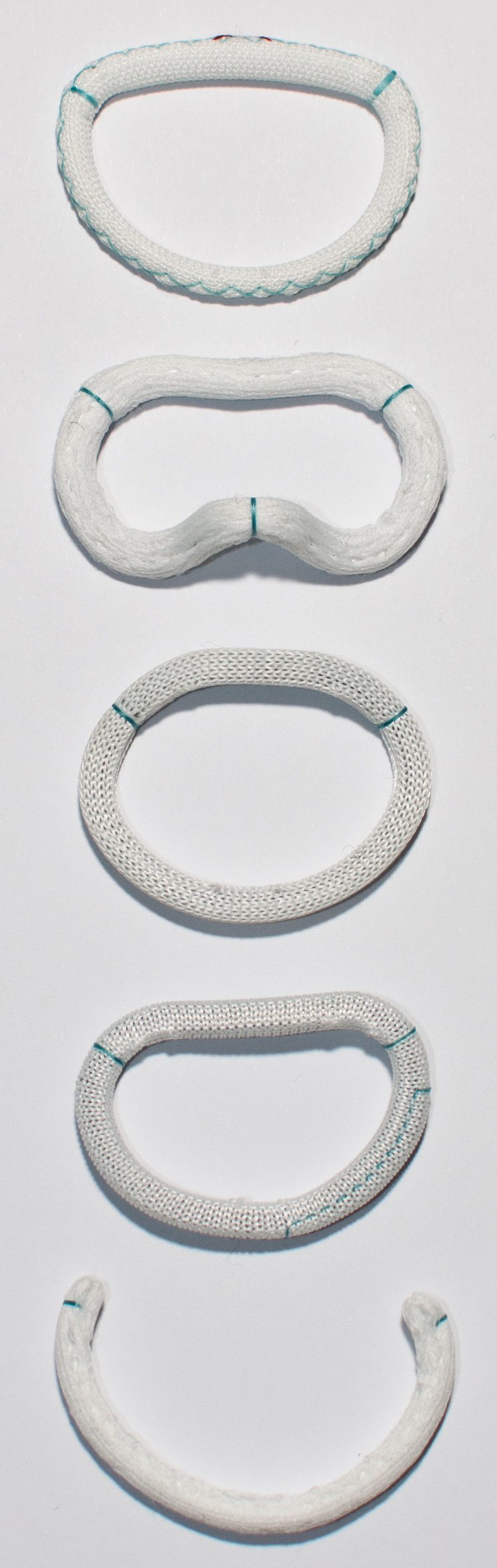 Manuel Rausch, Picture taken myself